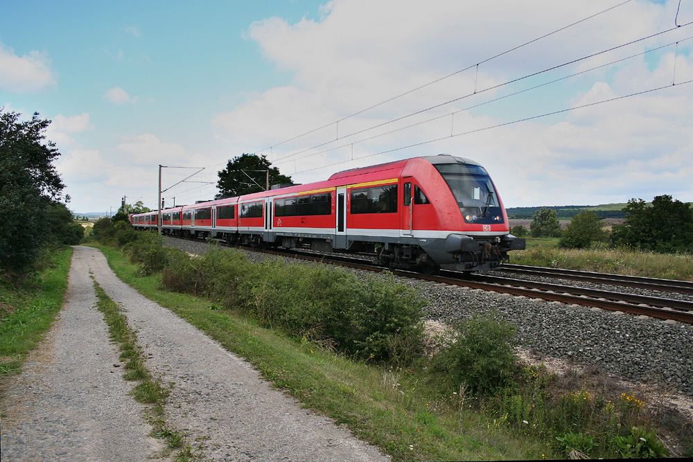 So-called Deutsche Bahn modus cars, travelling as a RegionalExpress train between Nuremberg and Würzburg. This picture has been taken near Markt Bibart.